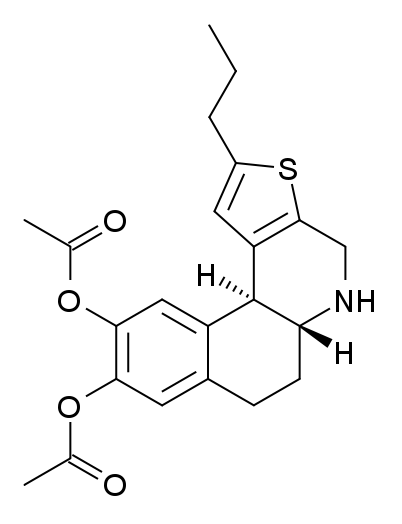 i drew this anyone can use it